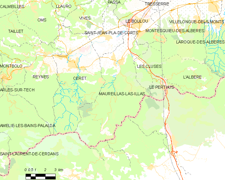 Map of French municipality